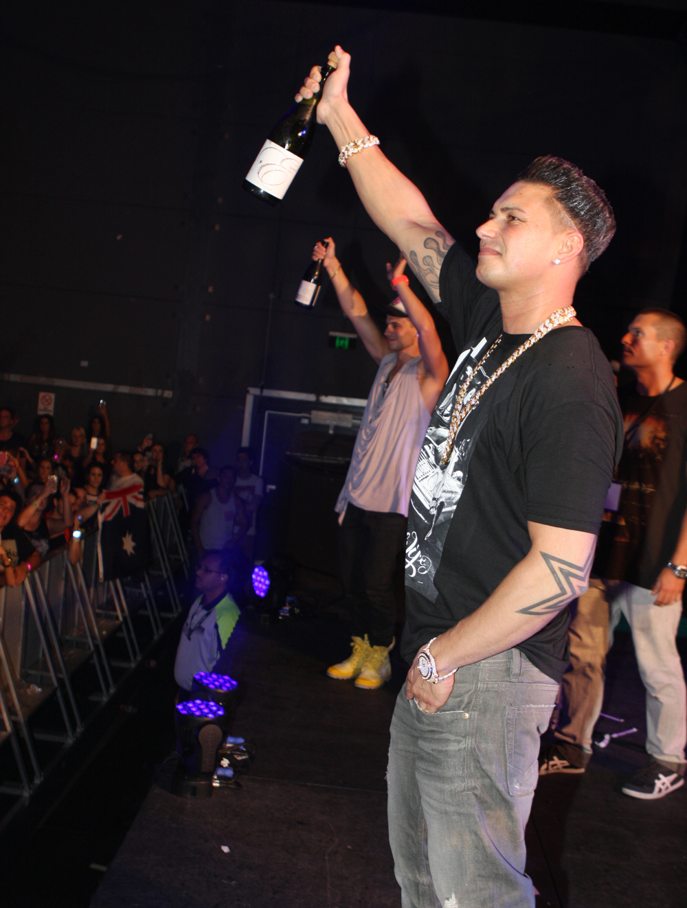 You would have to be living under a rock not to have heard of Pauly D.